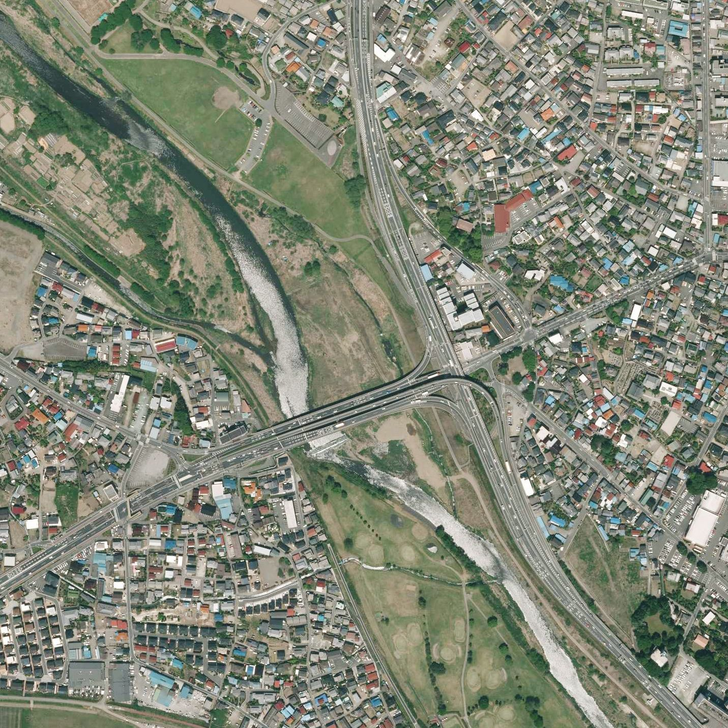 Kimigayo Bridge.